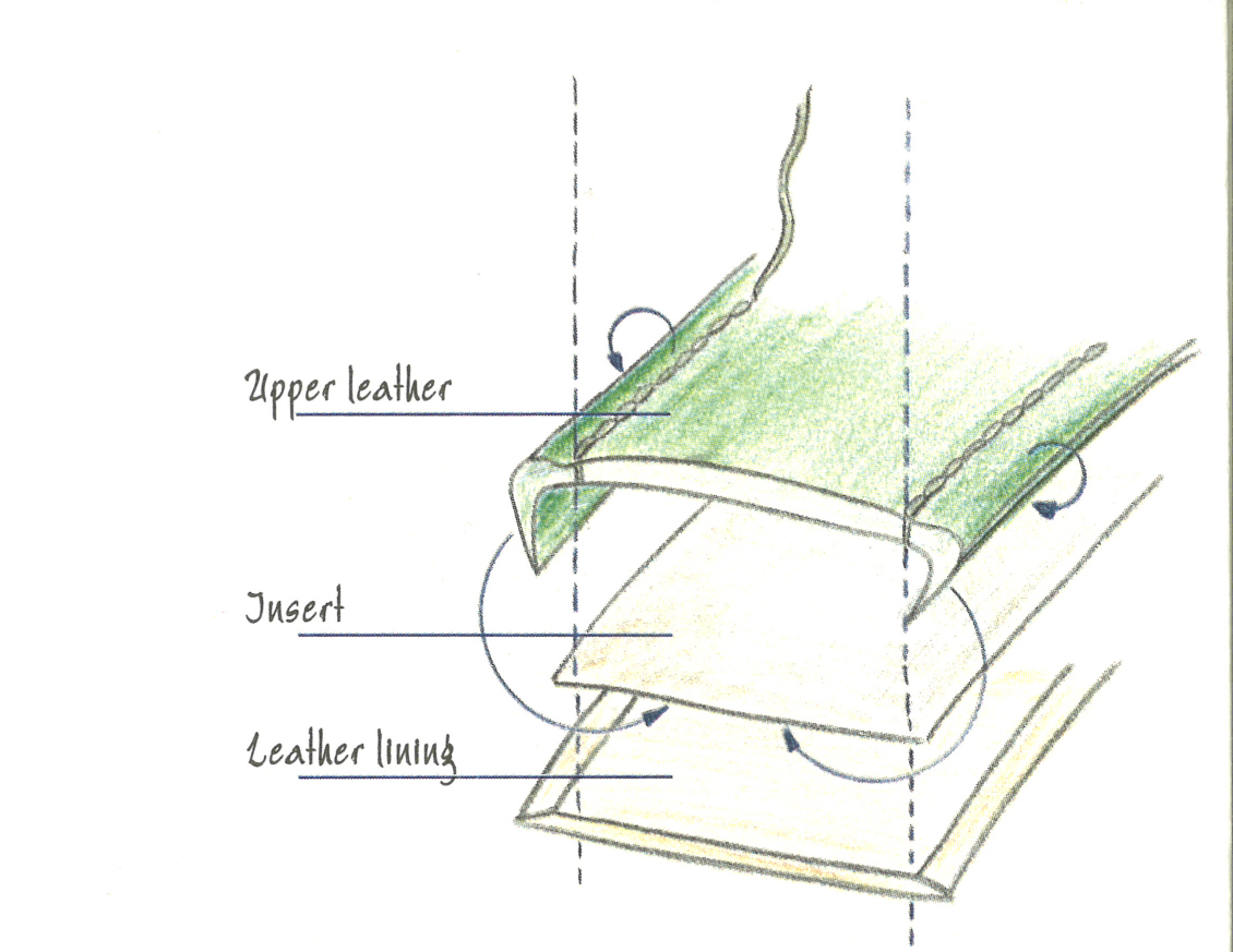 Turned Edge Technology (Swiss Rembordé)